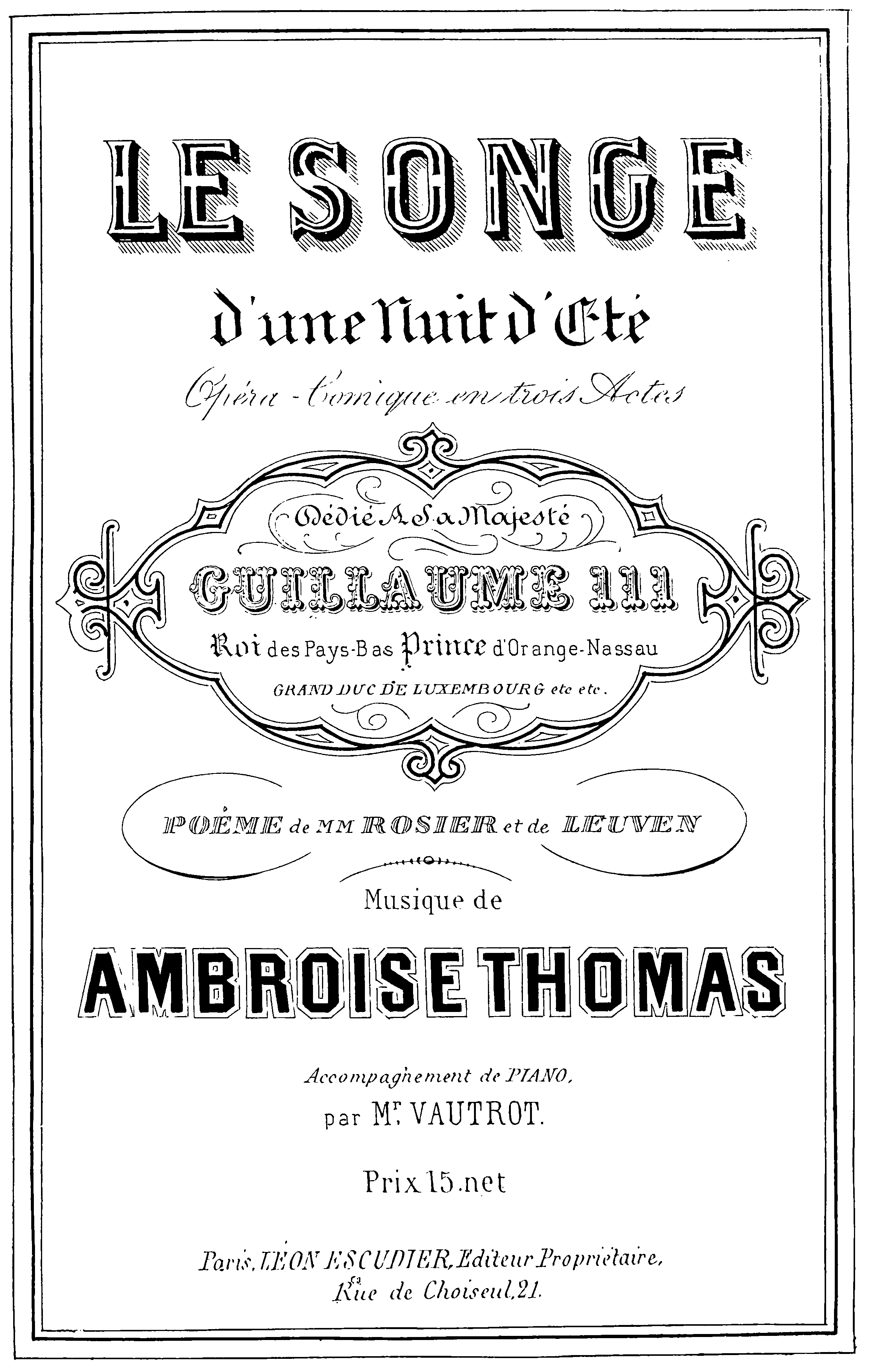 Ambroise Thomas - Le Songe d'une nuit d'été - title page of the piano score by Eugène Vauthrot